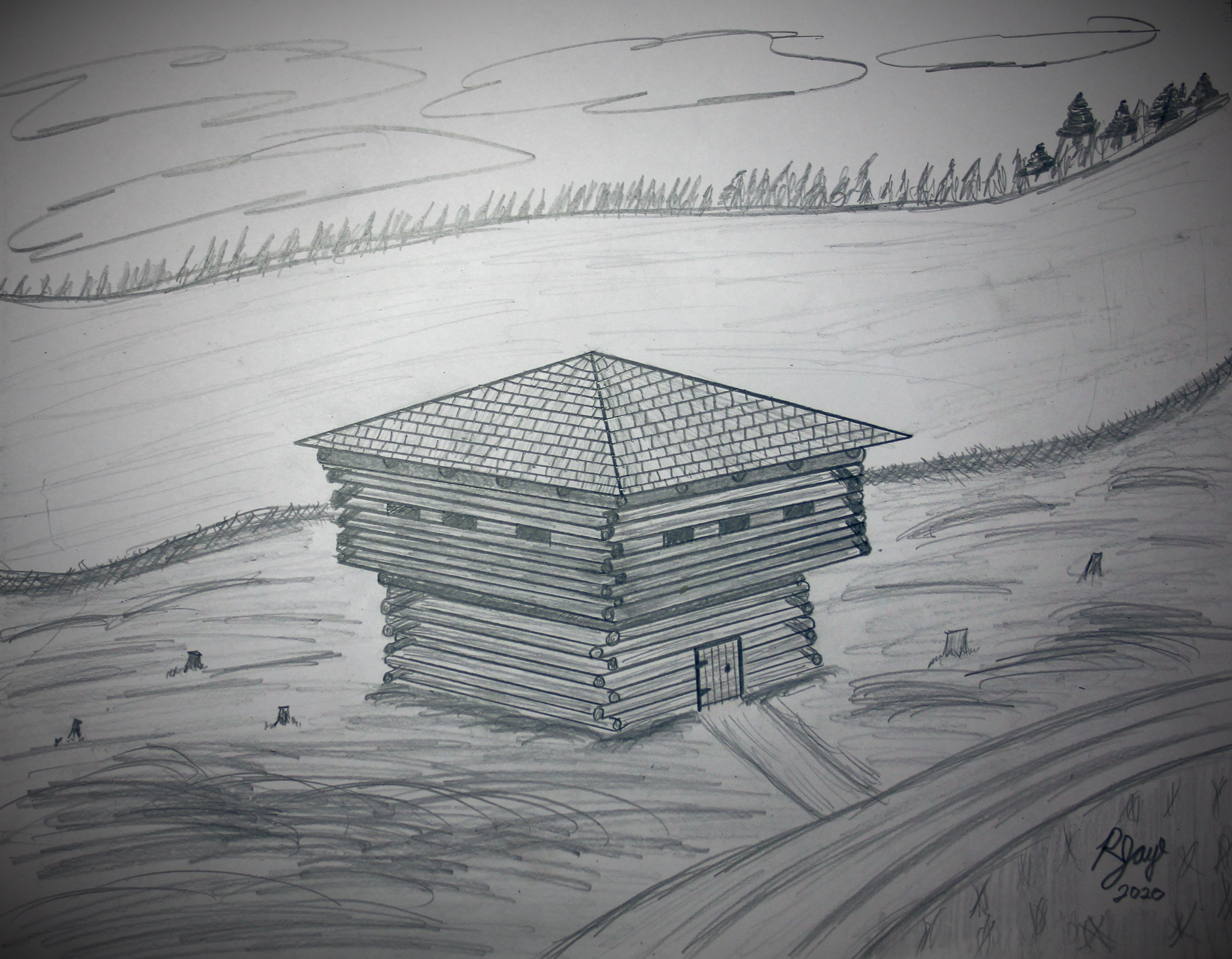 Fort Hanson - Artist Depiction - Second Seminole War Fort near St. Augustine, Florida